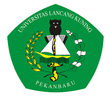 This is the logo of Universitas Lancang Kuning